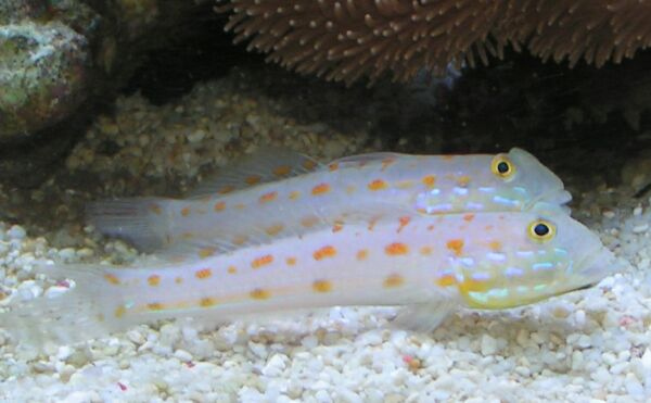 Valenciennea puellaris Author: User:Normann Z